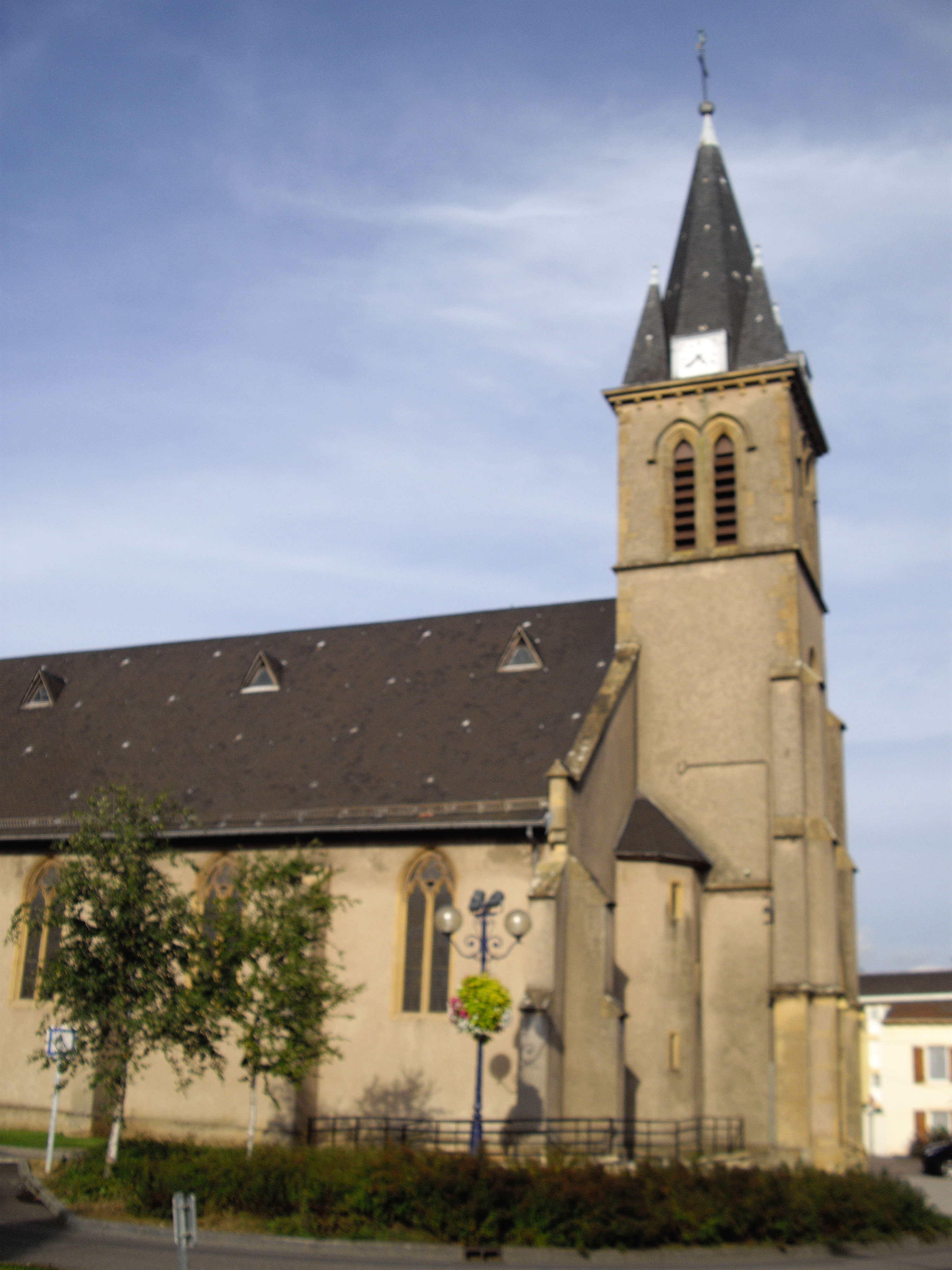 St.Barbara's church, in Uckange, Moselle, France.